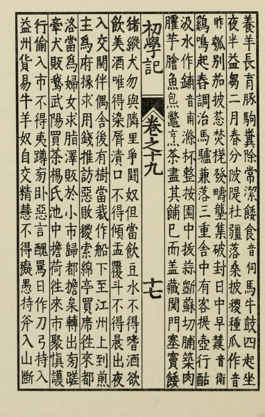 C. M. Wilbur, Slavery in China, p. 396: facsimile of ancient Chinese text by Wang Bao, Slave contract, describing the making of tea